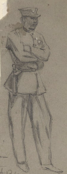 New Orleans, 1871: "On the Levee:" "Negro Policeman". Sketch by Alfred R. Waud.